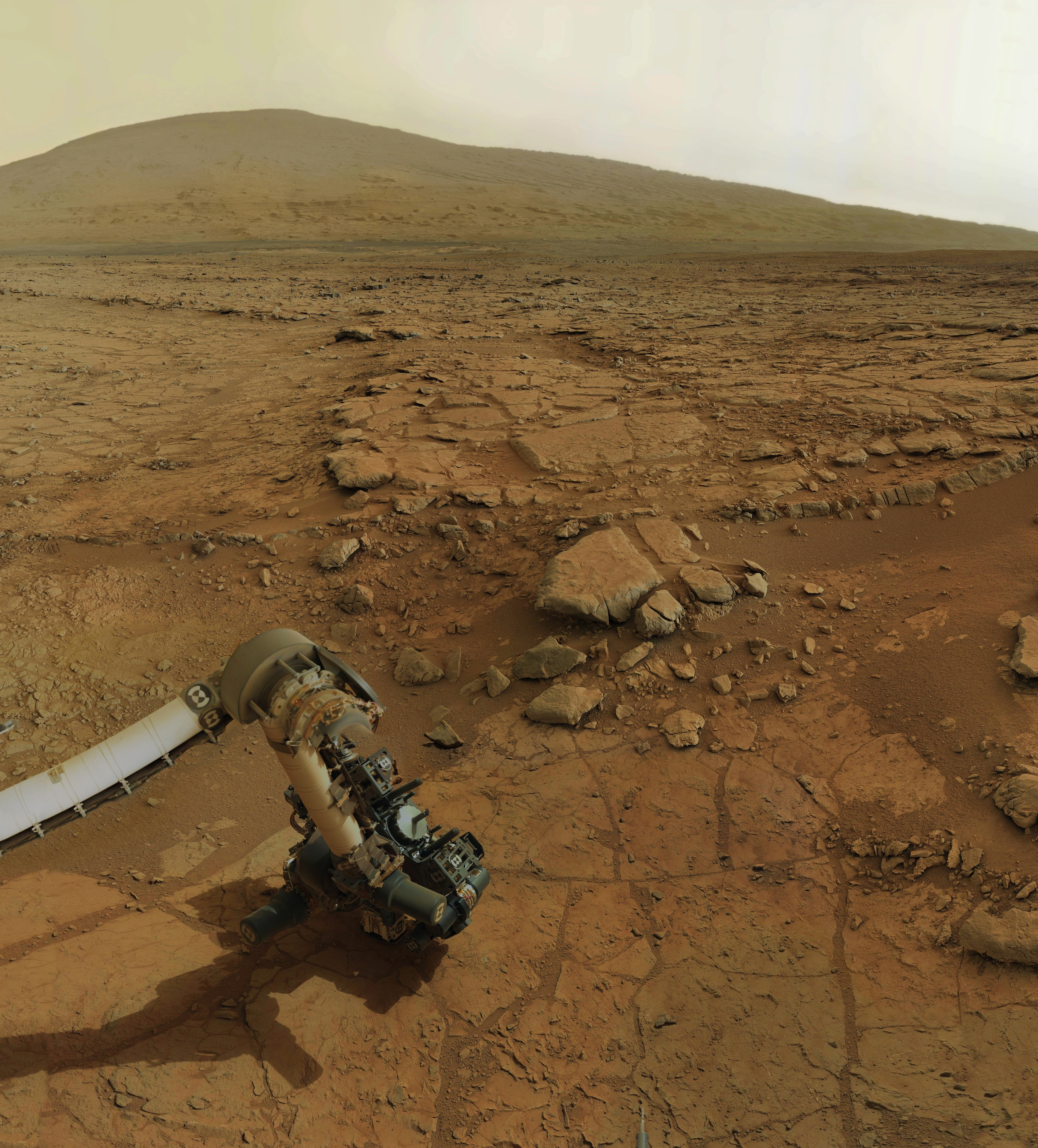 View of Curiosity’s robotic arm showing drill in place, with Yellowknife Bay and Mount Sharp in the background. Click for larger version. Credit: NASA / JPL-Caltech / Olivier de Goursac